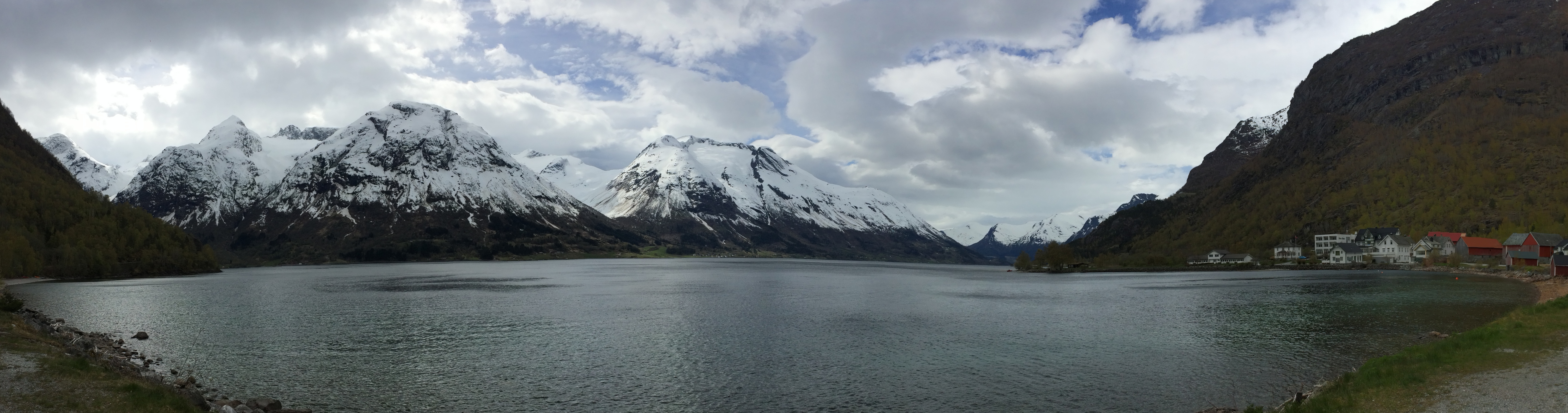 Fold-out-panorama of Hjelle hotel, Stryn, Sogn og Fjordane, Norway 2014-05-04. (iPhone panoramic photo, distortion may occur in details and continuity.)